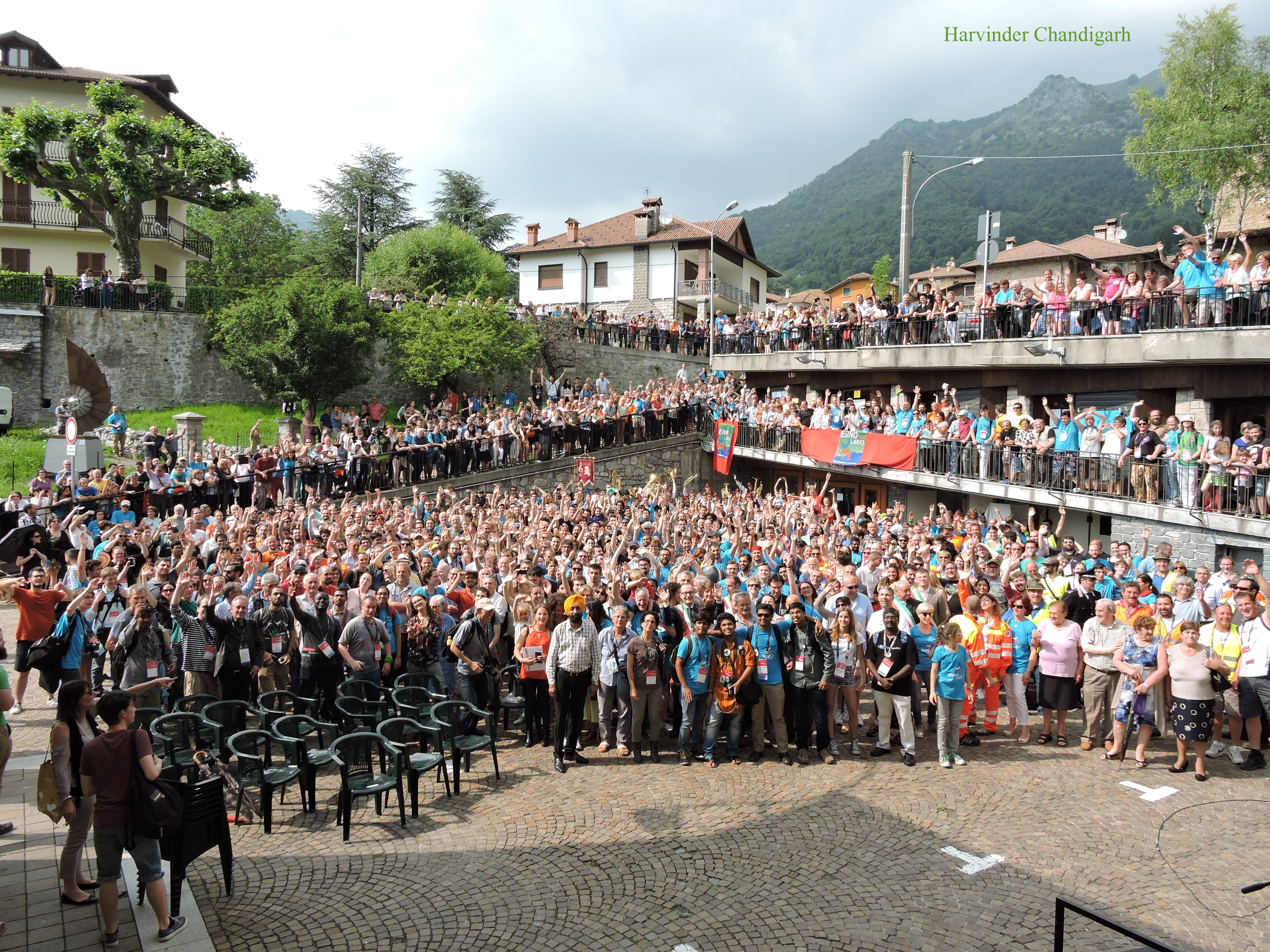 Group photo of participants of Wikimania 2016 conference, Esino Lario,Italy